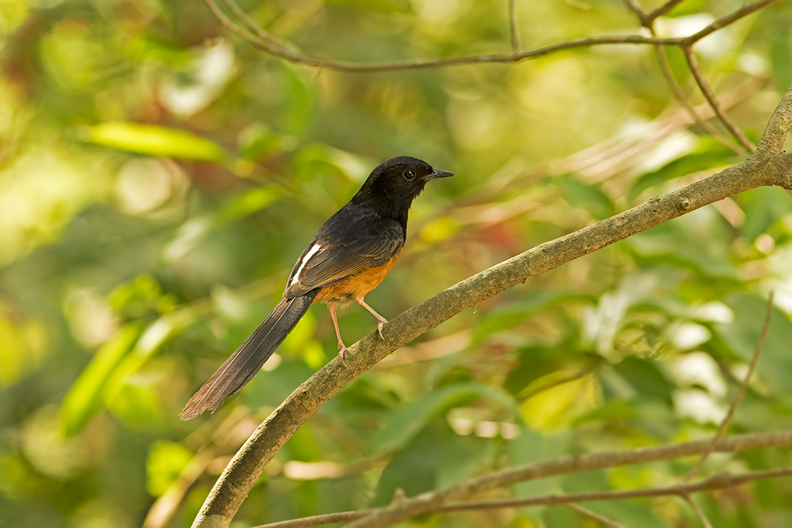 White-rumped shama (Copsychus malabaricus) in Bijrani, Jim Corbett, Utharakhand